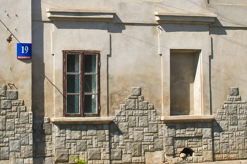 Daughters of Charity of Saint Vincent de Paul monastery